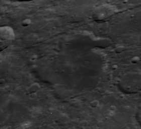 Oblique view of Artamonov, on the far side of the moon. Facing east (north is at left). Photographic blemish (white dot) on original was edited out.